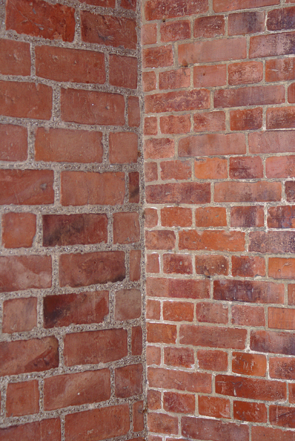 Brick-types; the bigger monk-bricks (left) used for churches and bigger buildings and normal size bricks (right) used for normal house-building. Detail from Roskilde Cathedral, Roskilde, Denmark